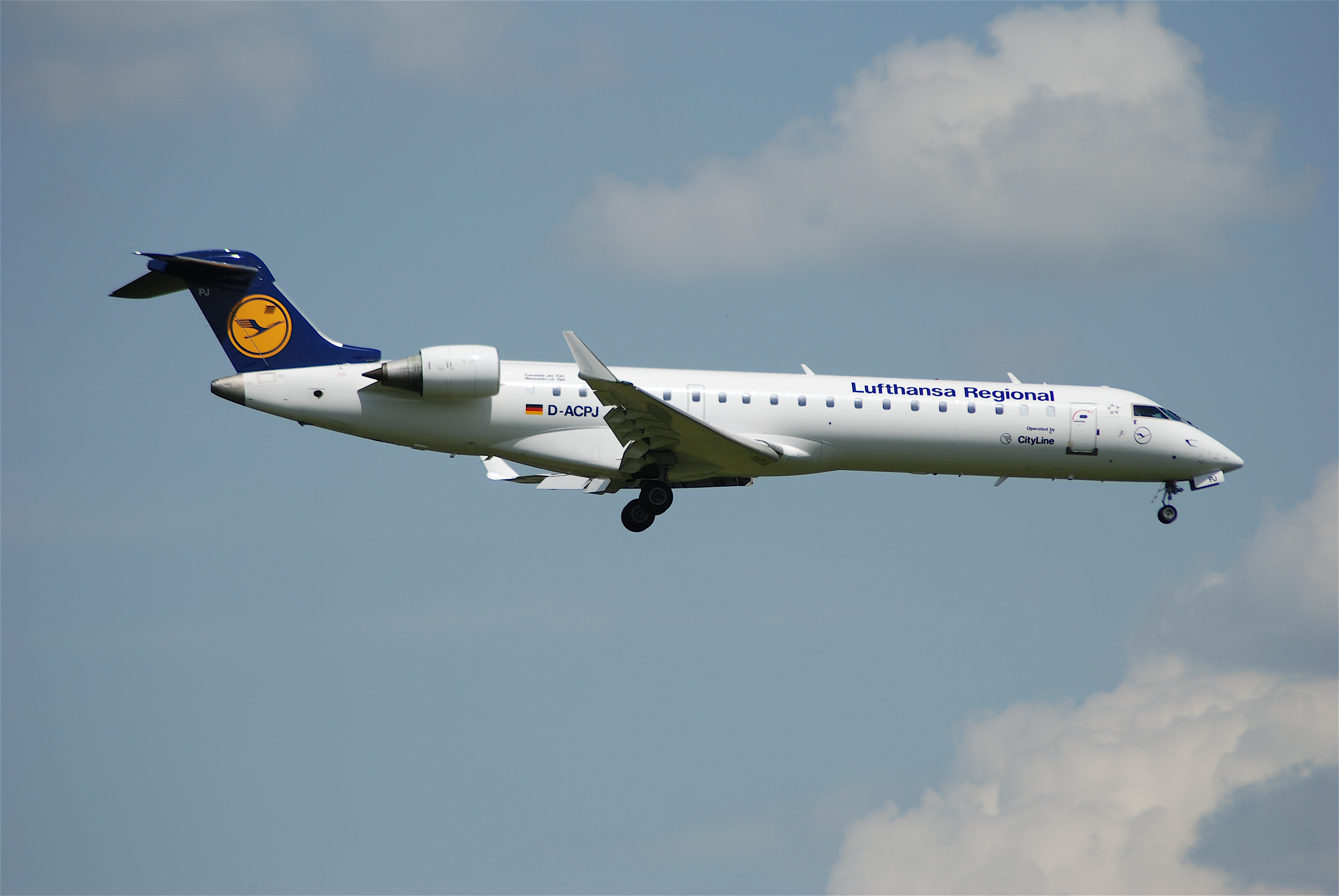 Lufthansa Regional Canadair CRJ-700; D-ACPJ@ZRH;22.05.2007/469bw